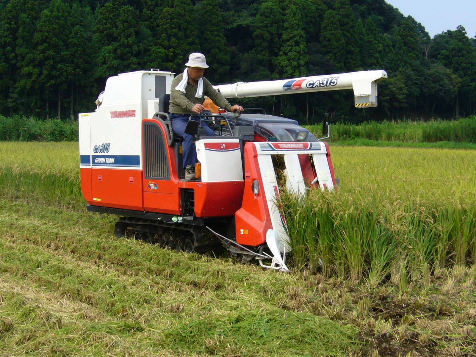 Rice combine harvester, Katori-city, Japan Bân-lâm-gú: 佇日本香取市的割稻仔機。